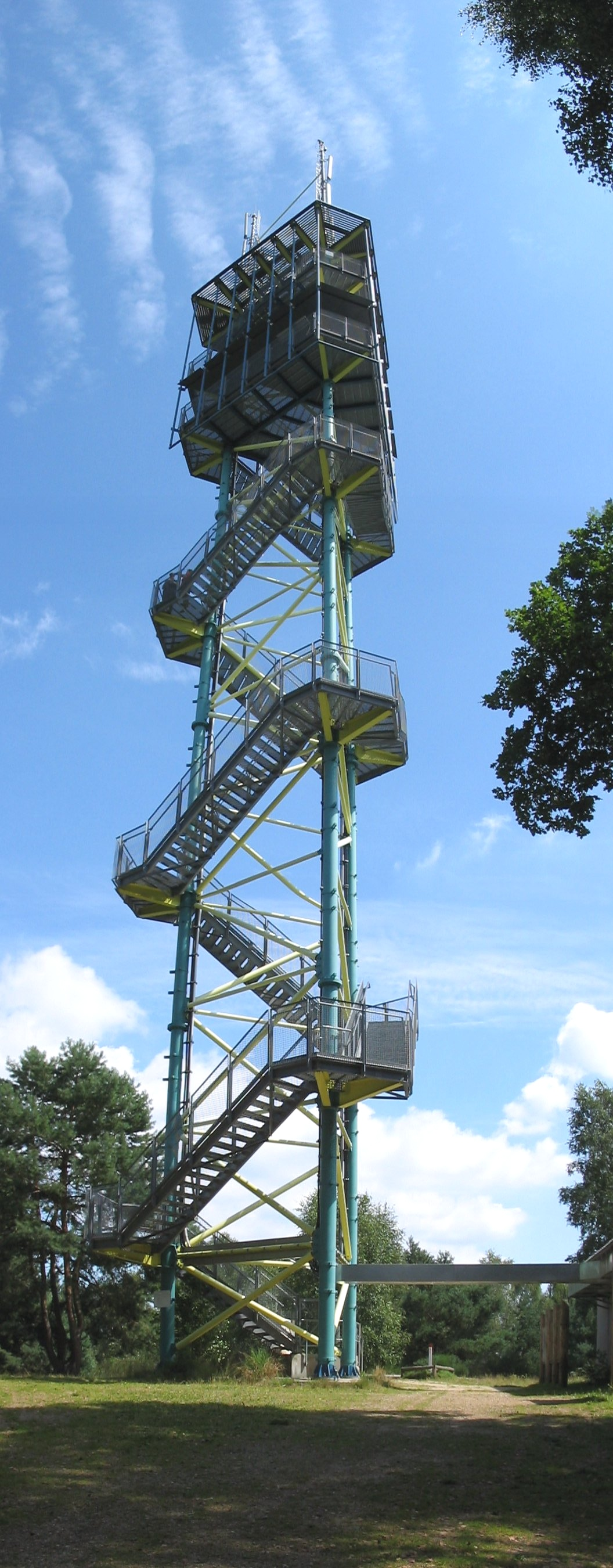 View- and Observation tower at hill Käflingsberg in Müritz National Park